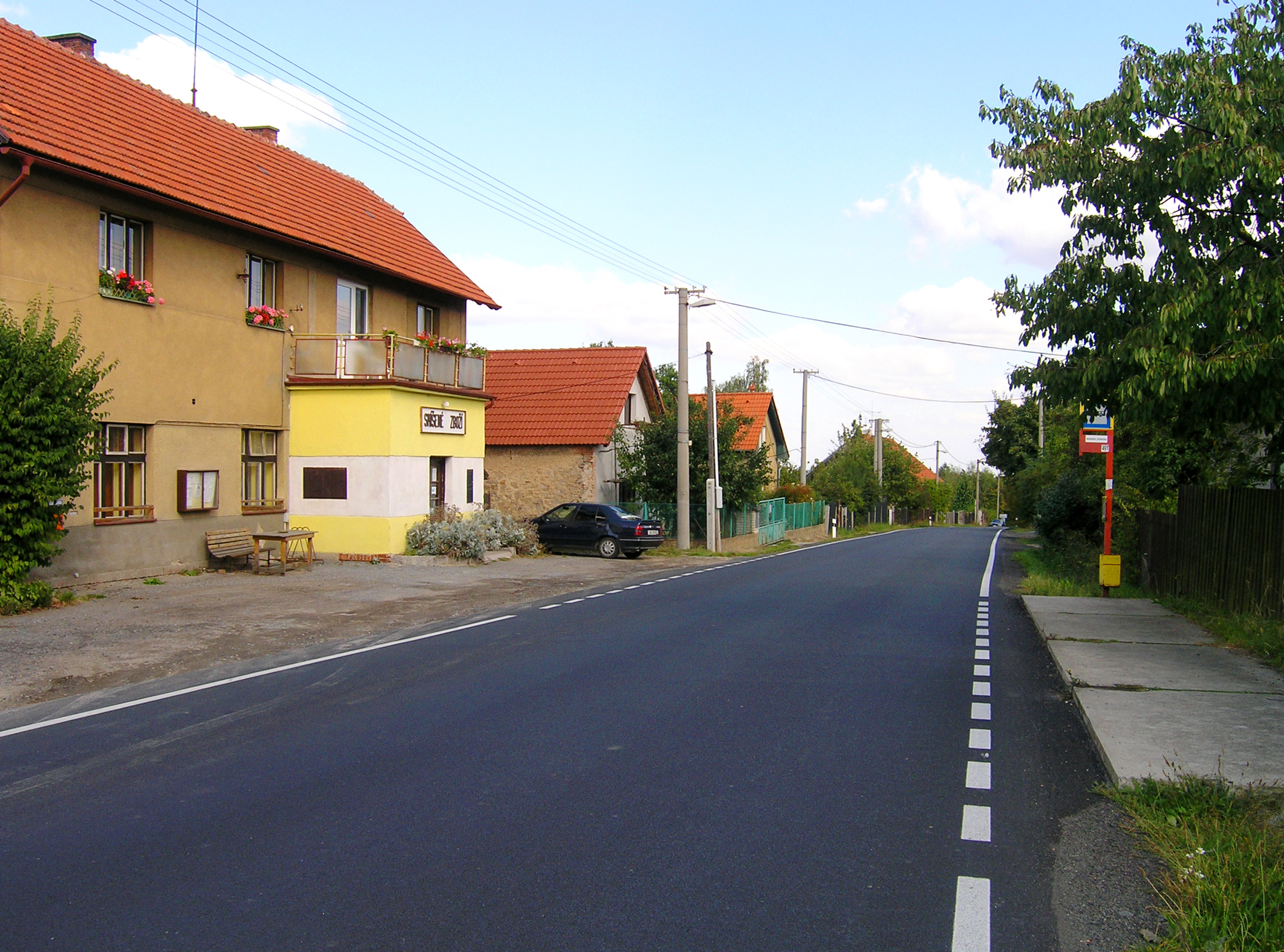 Žernovka, part of Mukařov village, Czech Republic